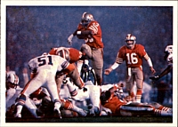 A football card from the 1986 Jeno's Pizza NFL football card stickers set of San Francisco 49ers running back Roger Craig rushing the ball during Super Bowl XIX. The card is numbered #28 in the set. The back of the card reads: CRAIG GOES OVER THE TOP